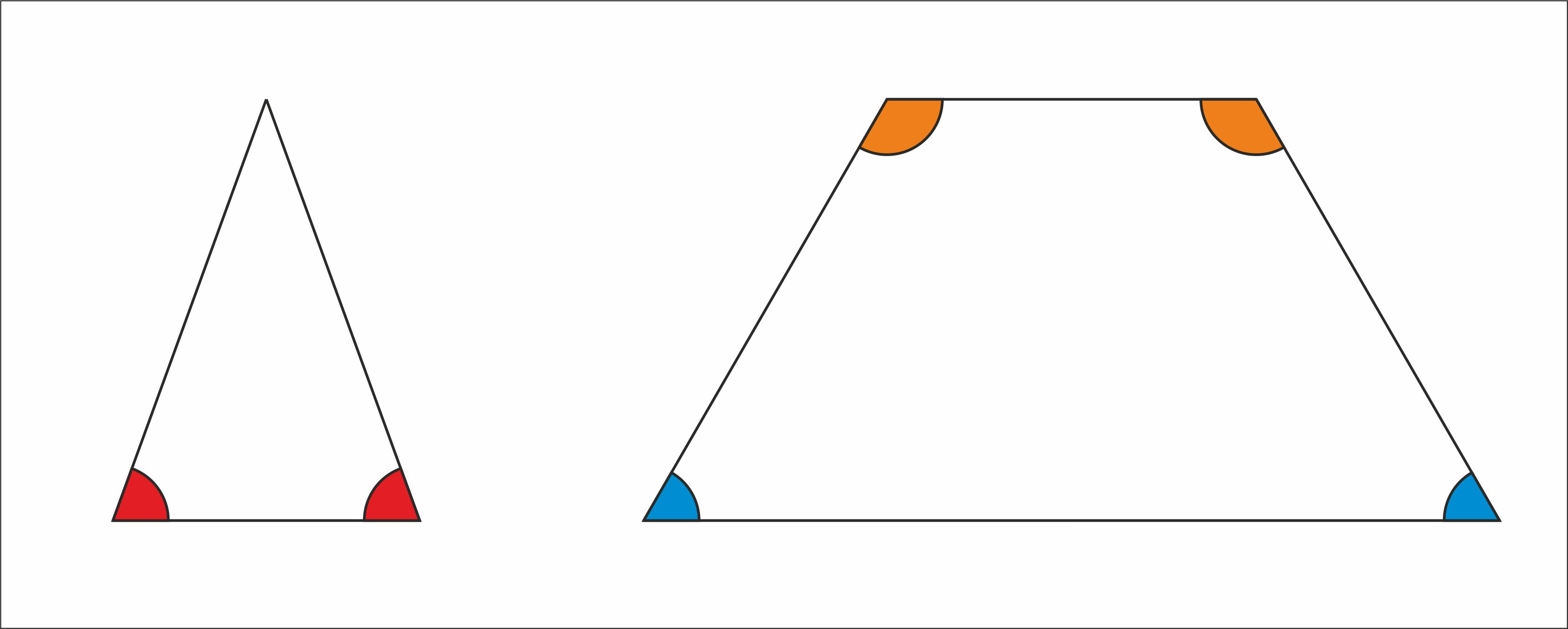 Illustrations of isosceles triangle and trapezoid base angles